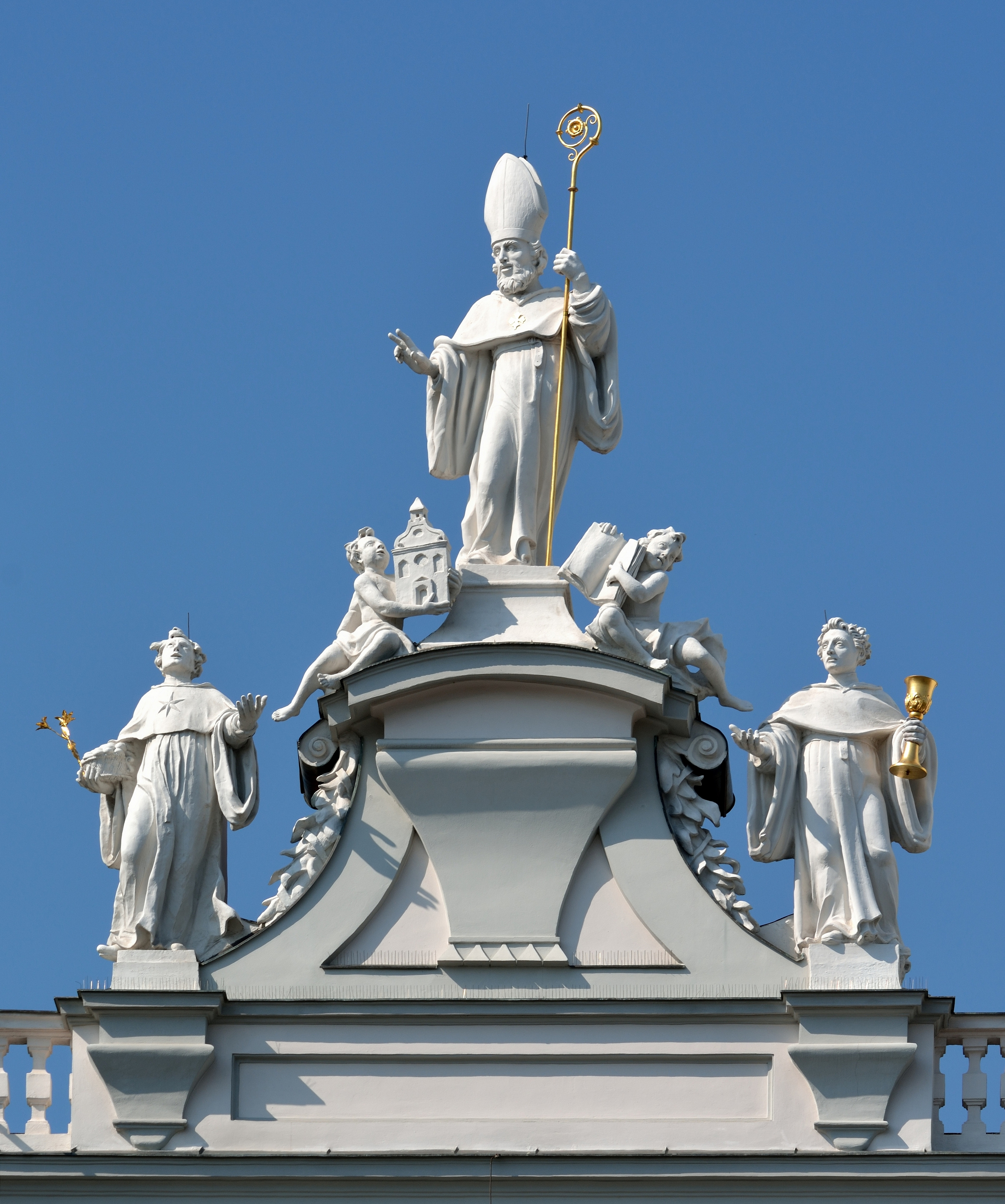 Catholic parish church Rochuskirche, Statue of Saint Augustine on roof, 3rd district of Vienna